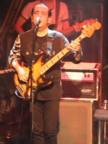 mfo jolly joker konserinde